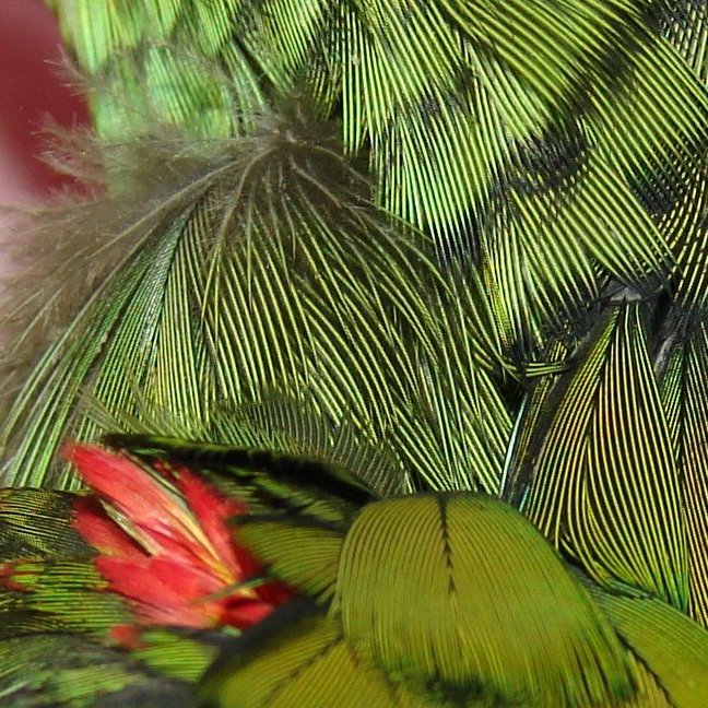 Close-up of green parrot feathers. The feathers of a Yellow-headed Amazon. The blue component of the green coloration is due to light scattering while the yellow is due to pigment.